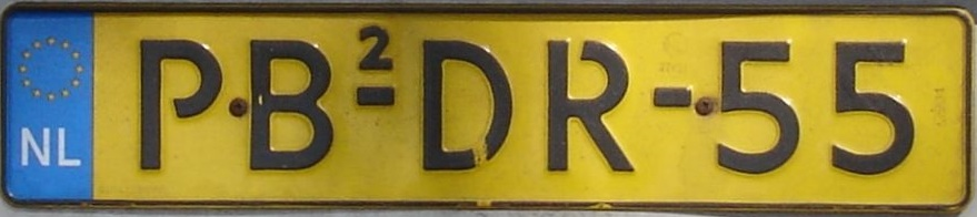 Dutch licence plate with sequence number